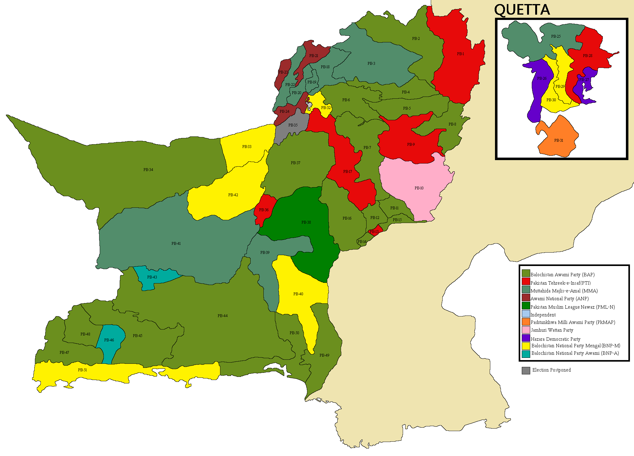 Map of Balochistan showing Assembly Constituencies and winning parties